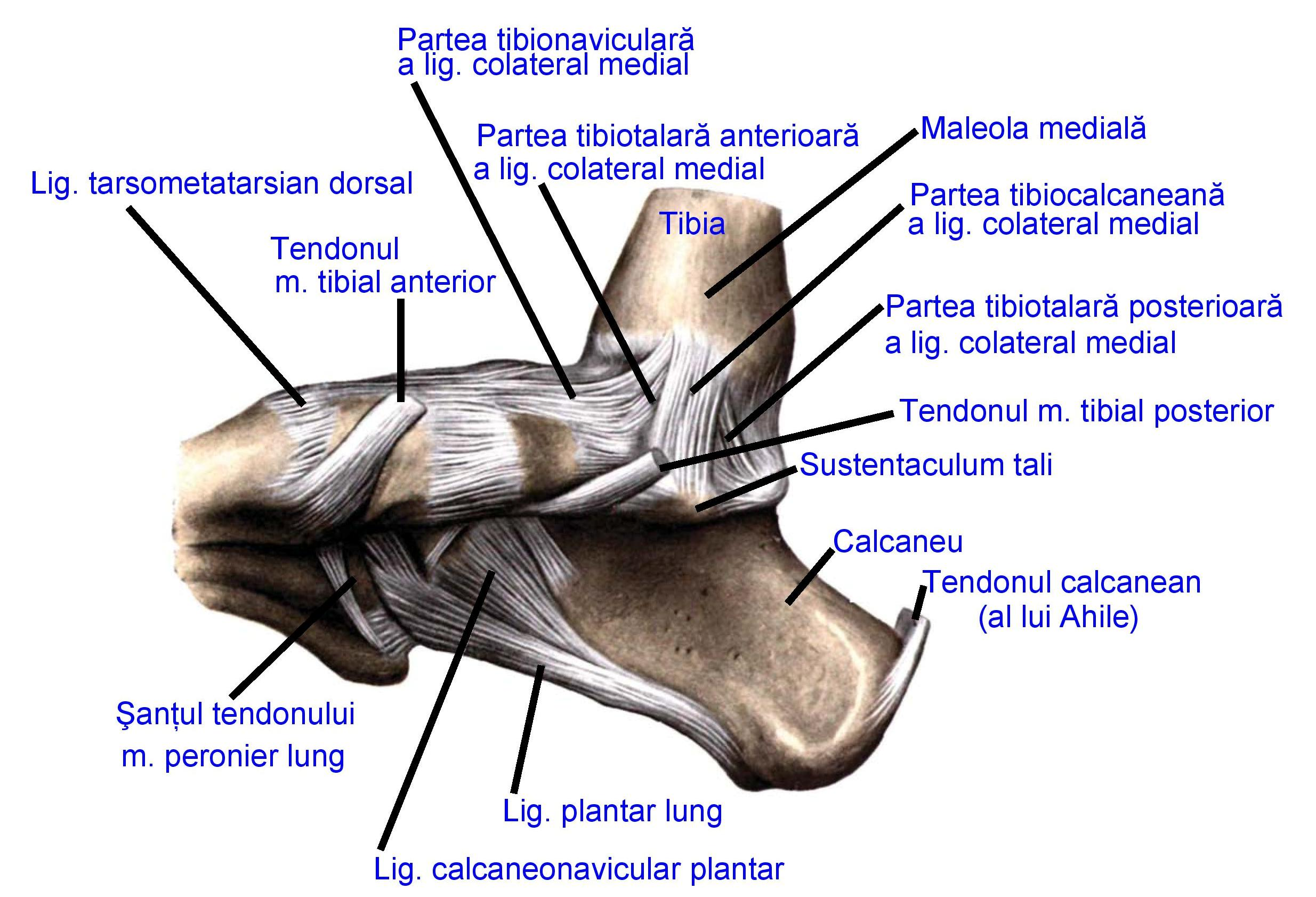 Ligaments of the medial aspect of the foot